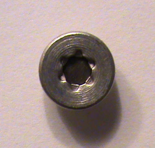 Americium-241 as found in ionization smoke detector. The circle of darker metal in the center is Americium-241 Dioxide (241AmO2), the surrounding casing is aluminum.